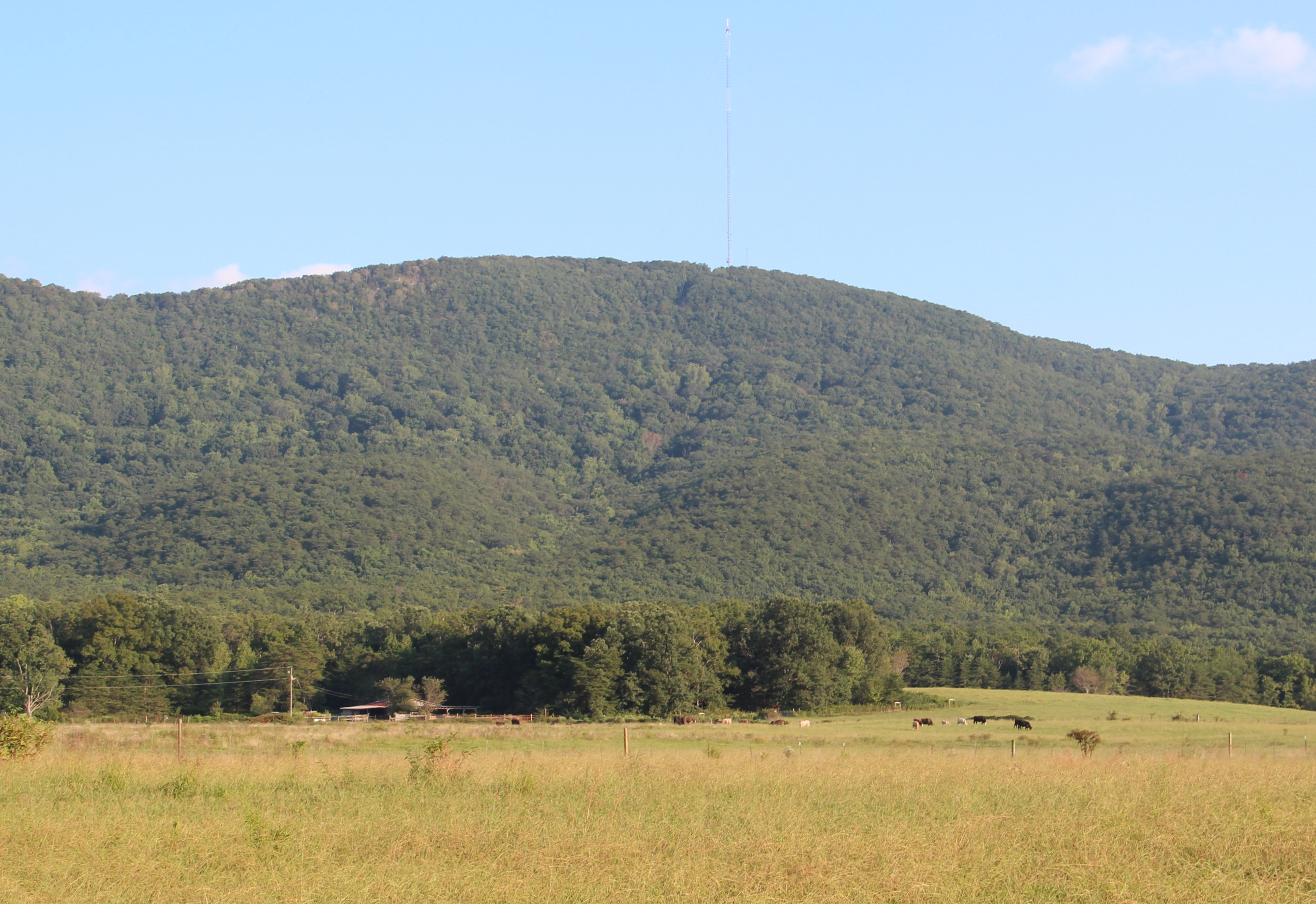 Bear Mountain, Cherokee County, Georgia in August 2015